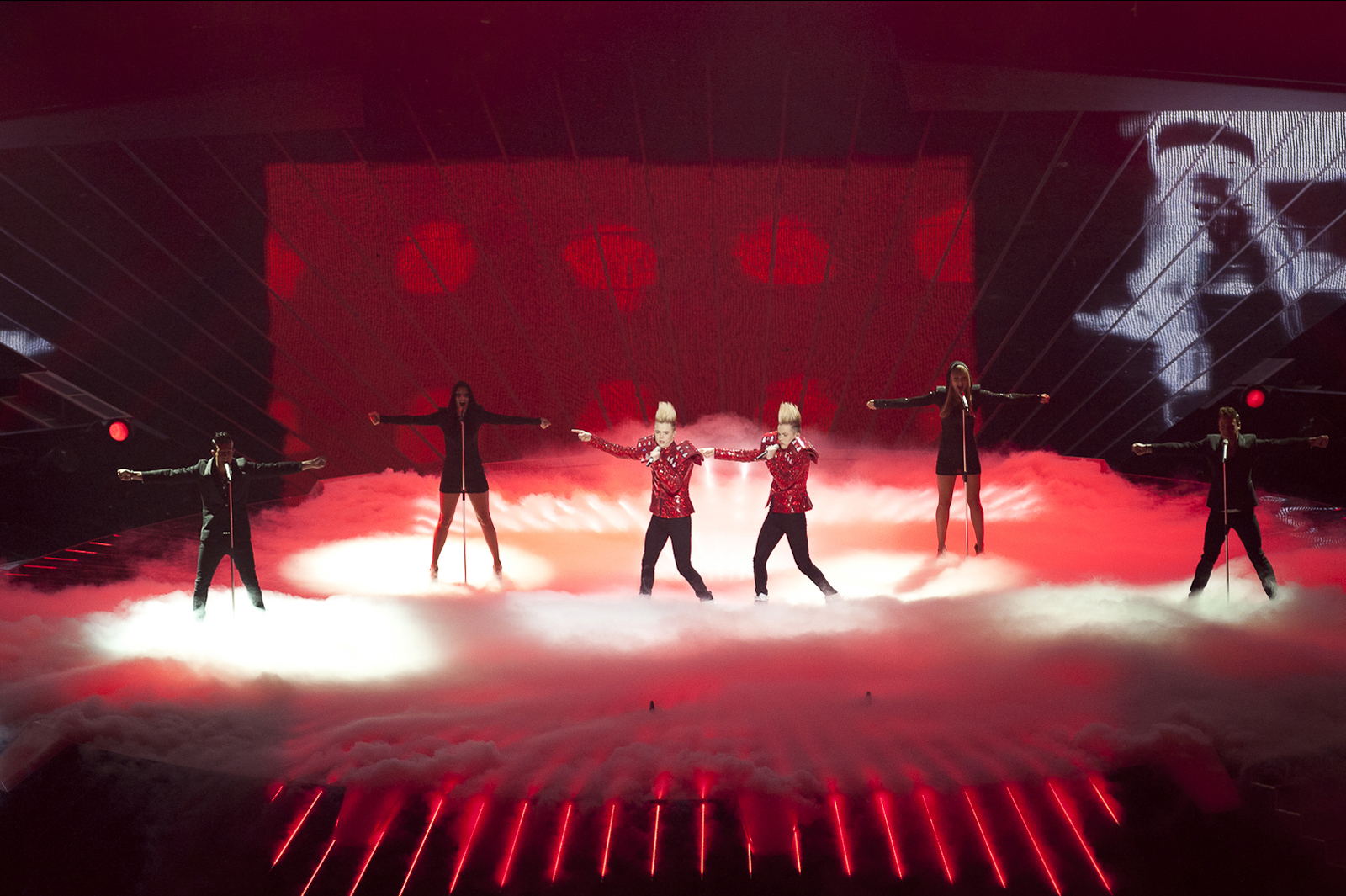 Jedward from Ireland performing "Lipstick" at Eurovision Song Contest 2011 in Düsseldorf